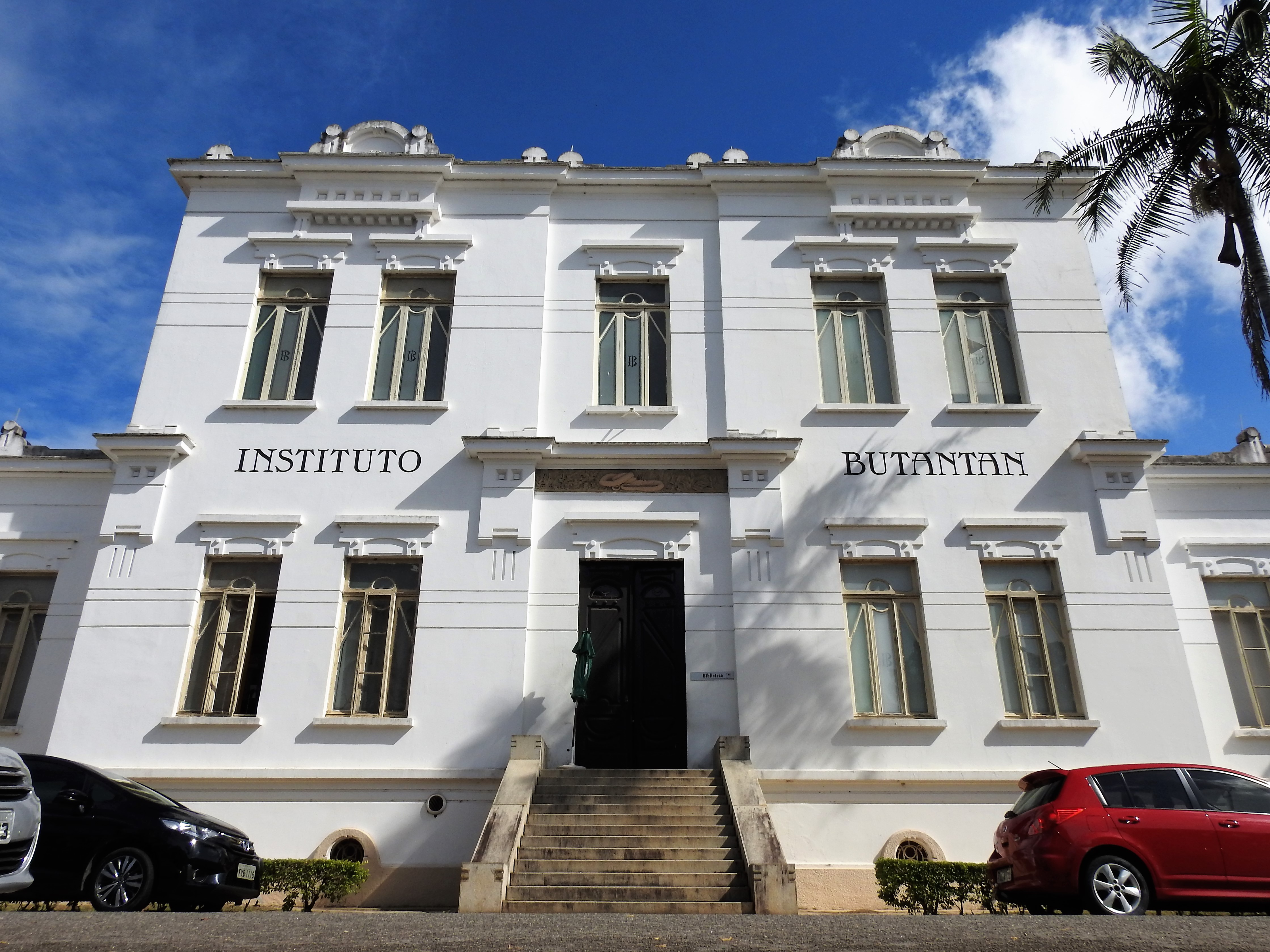 Instituto Butantan is a Brazilian biologic research center affiliated to the São Paulo State Secretariat of Health. Considered one of the major scientific centers in the world,[2] Butantan is the largest immunobiologicals and biopharmaceuticals producer in Latin America (and one of the largest of the world). It is world-renowned for its collection of venomous snakes, including as well venomous lizards, spiders, insects and scorpions. By extracting the reptiles and insects' venoms, the Institute develops antivenoms and medicines against many diseases, which include tuberculosis, rabies, tetanus and diphtheria.